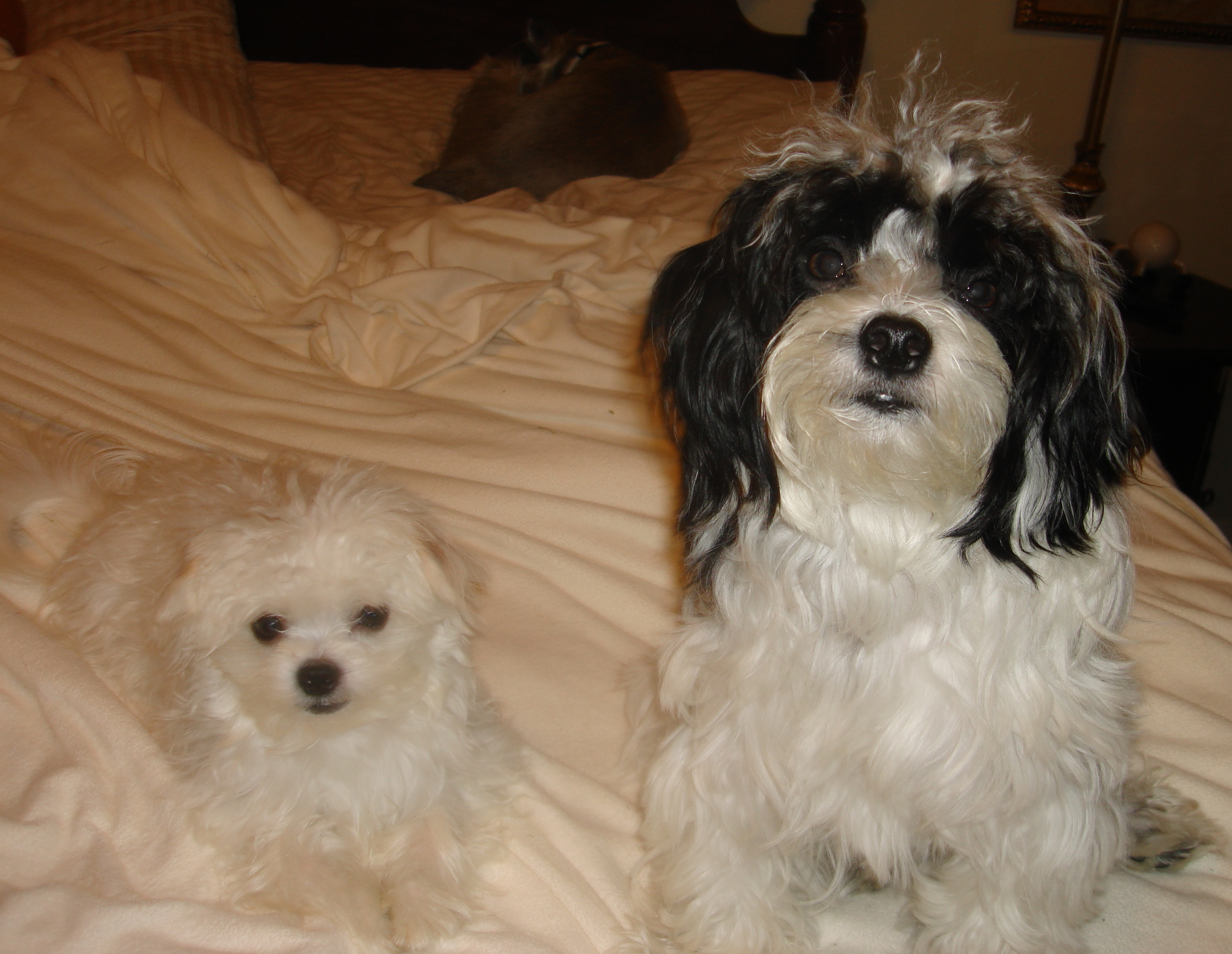 A picture of two morkies of the same age from the same litter. They are both 1 year old, and this picture illustrates how varying their appearances can be.